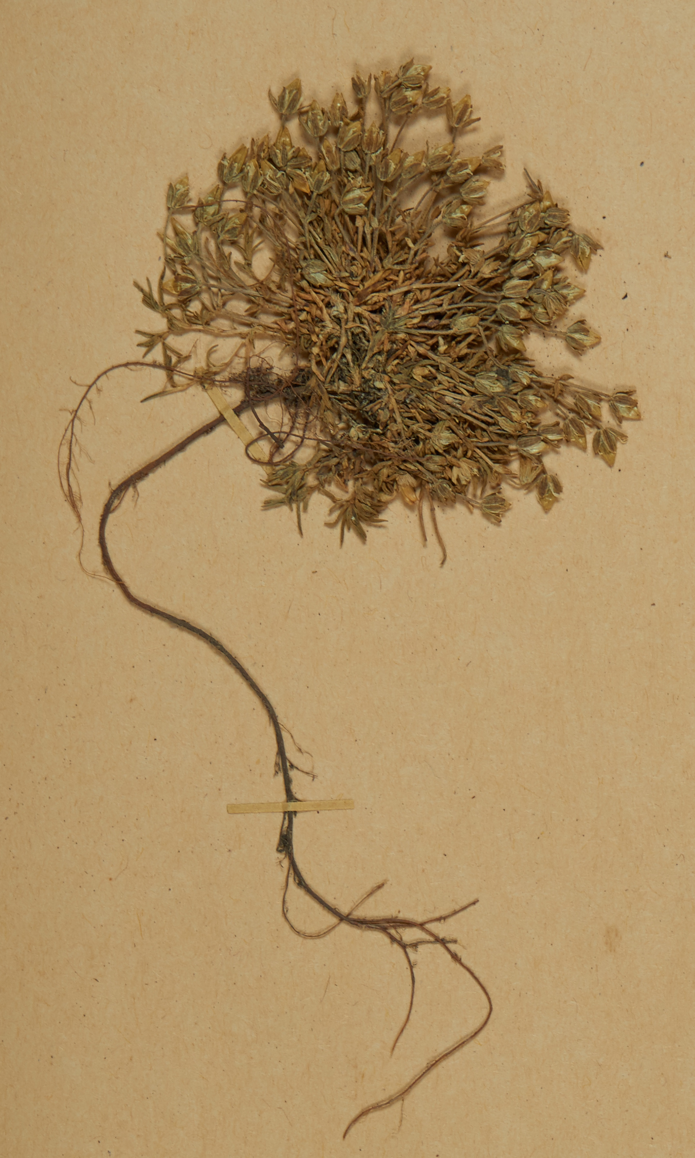 Dried pressed specimen of Minuartia biflora